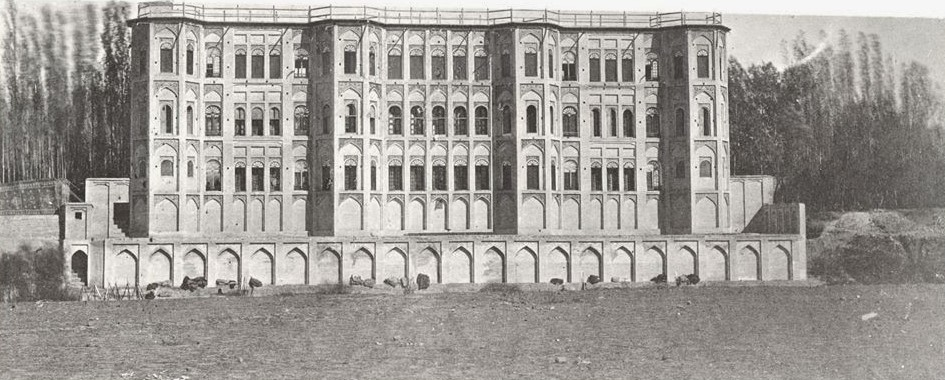 İmadîye (Emadiye) Palace in Dehpan (Dêpen) in Kermanshah (Kirmaşan) suburb, wich built by Imam-Qoli-Mirza Emad-o-Dowle-ye Qajar, and destroyed in Pahlavi dynasty perdiod. Kurdî: کووشک عمادییه‌ له‌ دێپه‌ن کرماشان ک له‌ سه‌رده‌م فه‌رمانڕه‌وایی عمادوده‌وله‌ی ده‌وڵه‌تشاێ قاجار سازه‌ریا و له‌ سه‌رده‌م په‌هله‌وییش ڕماندریا.